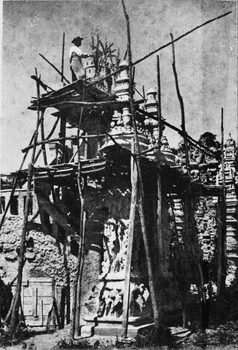 Facteur Ferdinand Cheval